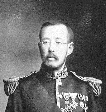 Morishige Hosokawa